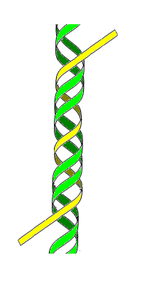 Schematic of triple-stranded DNA, formed by a single-stranded DNA molecule binding to the major groove of a double-stranded (ds) DNA helix. This configuration occurs where the dsDNA is a polypurine/polypyrimidine duplex and the third strand is either polypurine or polypyrimidine, depending on its orientation. The third strand forms Hoogsteen or reversed Hoogsteen hydrogen bonds with the bases of one of the other two strands.